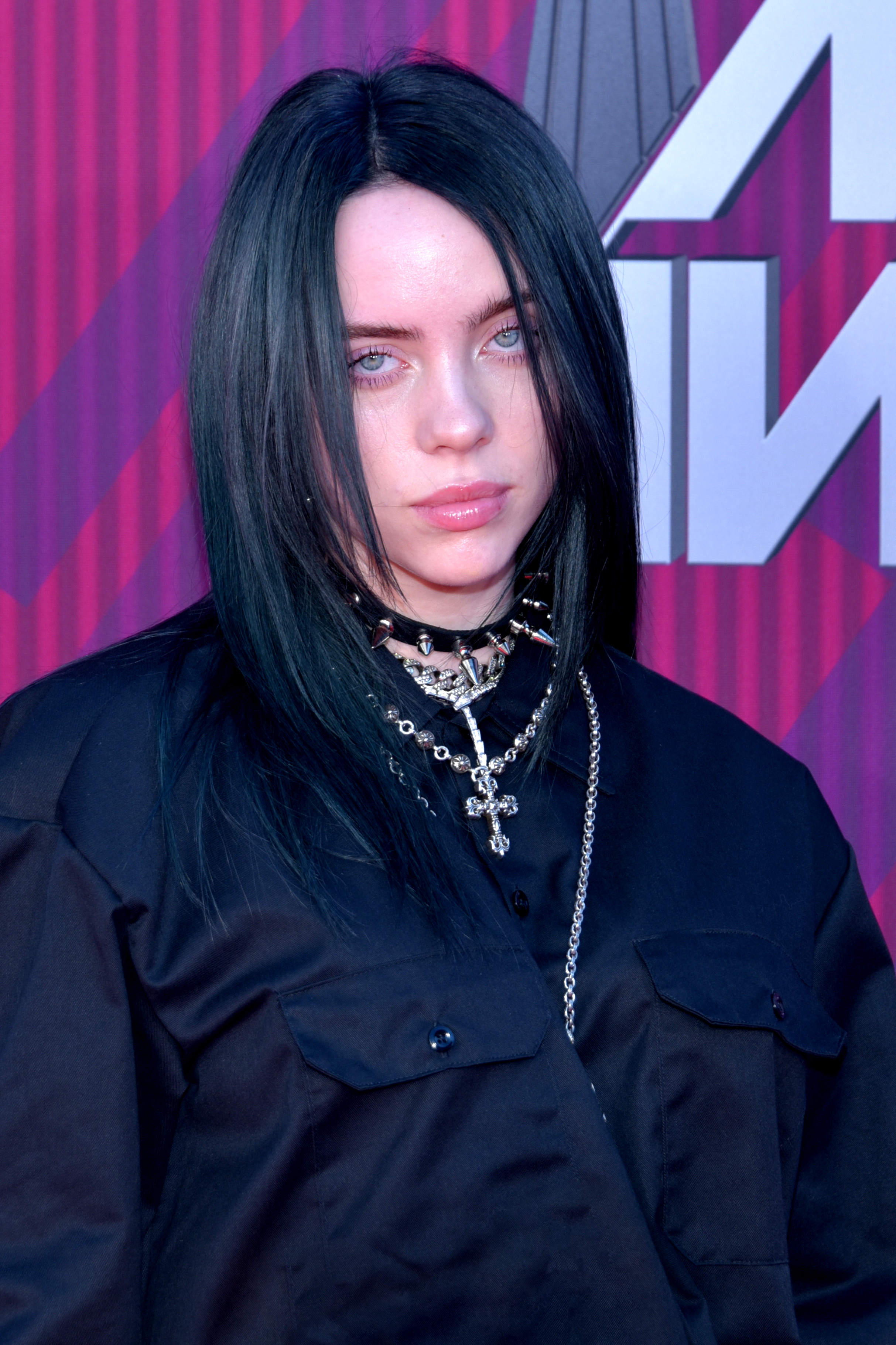 Billie Eilish at the 2019 iHeartRadio Music Awards in Los Angeles California on March 14, 2019 - Photo by Glenn Francis of